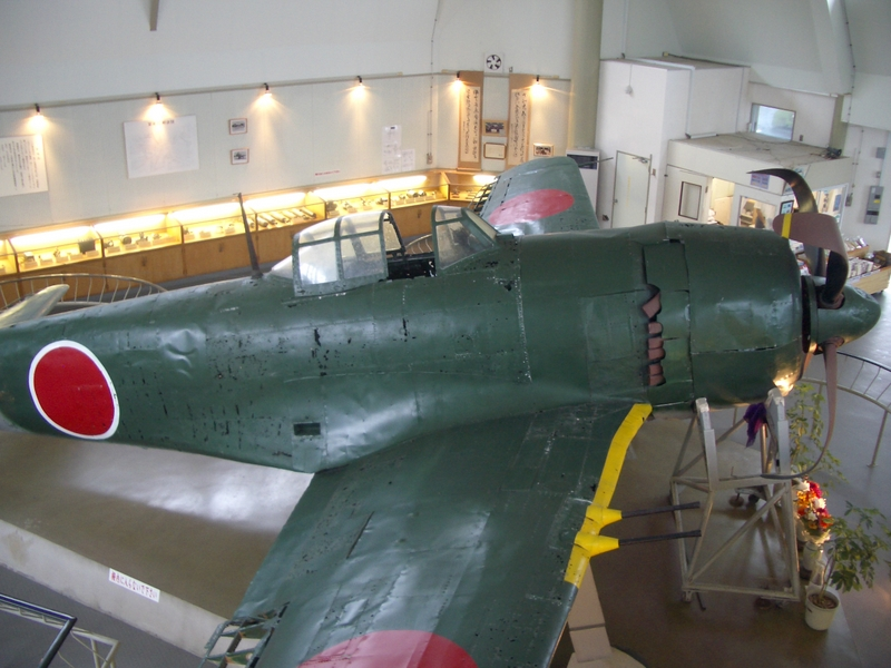 Kawanishi N1K2 Shiden-kai sunken in the strait of Bungo on July 24 1945